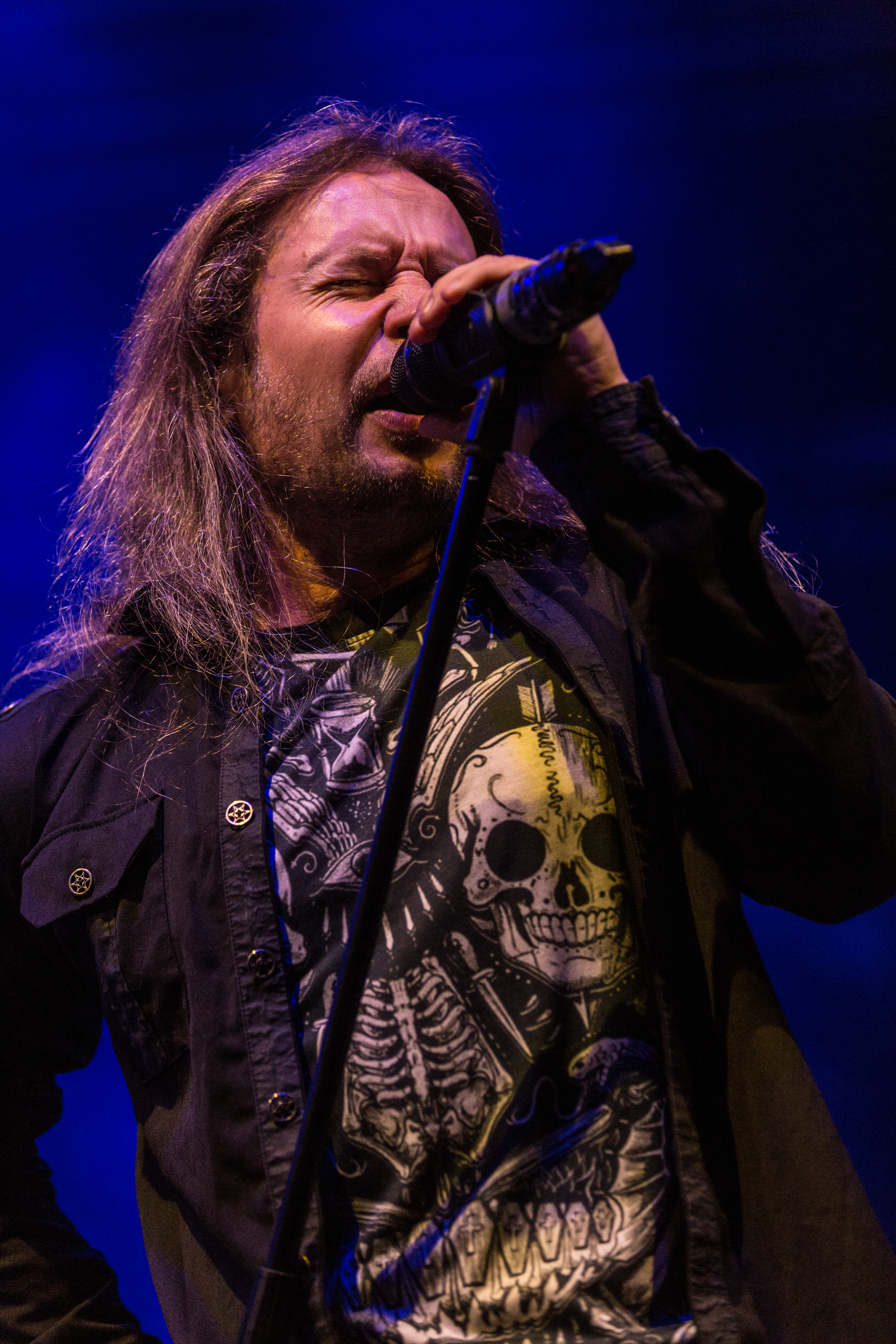 The Finnish power metal band Stratovarius at the Metal Frenzy 2017 in Gardelegen/Germany.